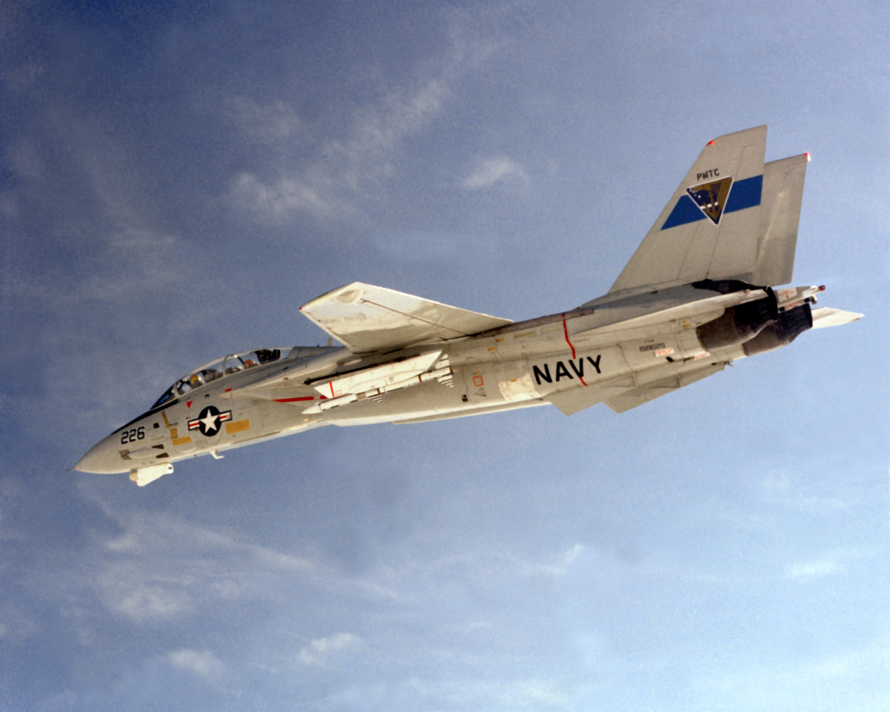 A U.S. Navy Grumman F-14A-65-GR Tomcat (BuNo 158625) from the Pacific Missile Test Center at Naval Air Station Point Mugu, California (USA), in flight before launching an AIM-120 AMRAAM missile on 23 September 1981.